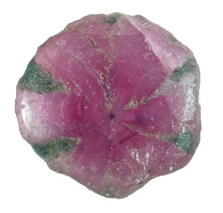 Corundum, variety trapiche ruby Locality: Möng Hsu (Monghsu; Maing Hsu), Loilem District (Loilen District), Shan State, Myanmar Size: 0.4 cm x 0.3 cm x 0.1 cm Rubies are regarded amongst the most valuable gems in the world, and despite the fact that rather large crystals of red colored Corundum are found in multiple world localities, transparent crystals are few and far between. In addition to the scarcity of gem Corundum crystals is the elusive "Trapiche" habit that is found in a very small percentage of Ruby crystals, most notably from Burma. This piece is a polished cross section (slice) of a "Trapiche" Ruby crystal with great form and gemminess. The term "Trapiche" is actually in reference to Emeralds from Colombia, as the Trapiche emeralds display six spoke-like carbon "rays" emanating from a hexagonal center with the areas in between filled with lively green. These rays appear much like asterism, the only difference being that they are fixed and do not move. A Trapiche is the result of the hexagonal shape of the crystal (both Beryl and Corundum are hexagonal), where the darker impurities interrupt the growth of the crystal and are pushed to the center of the crystal and then radiates out in the six directions of the corners of the crystal. To find this phenomenon in a Ruby is rather rare in the mineral world.